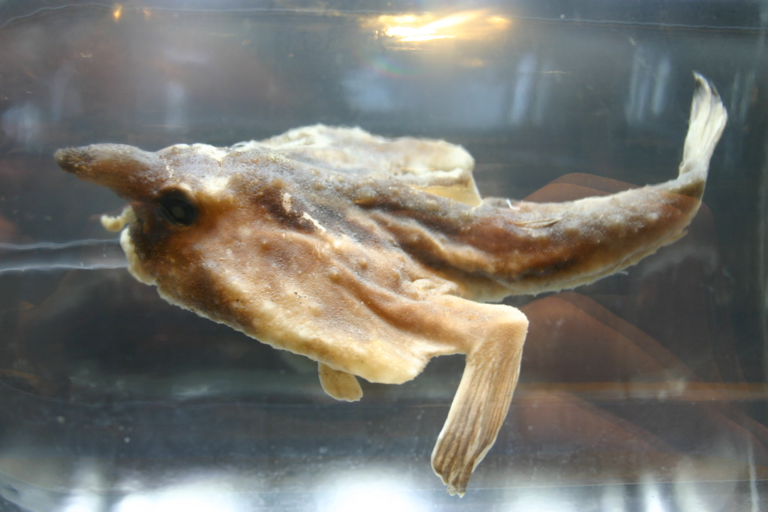 Ogcocephalus darwini at the Smithsonian Natural History Museum: The Sant Ocean Hall.